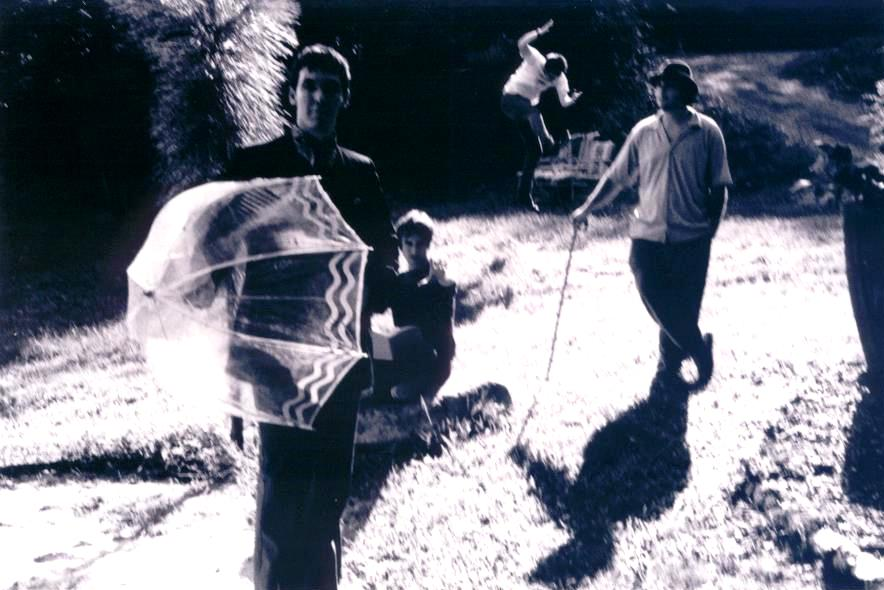 Photo I took of Echo Orbiter outside looking glass workshop